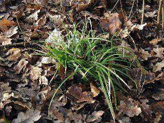 Carex sylvatica